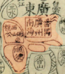 Highlight of 三邑, area cover the proximity of the city of Canton in South China. Based on Ch'ing Map 京版天文全圖 (1790 by 馬俊良). Jing ban tian wen quan tu, by Ma Junliang, 1797. (Library of Congress)